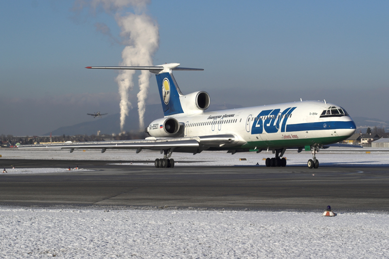 Continental Airways Tupolev Tu-154M RA-85831 in basic Bashkirian Airlines colours.